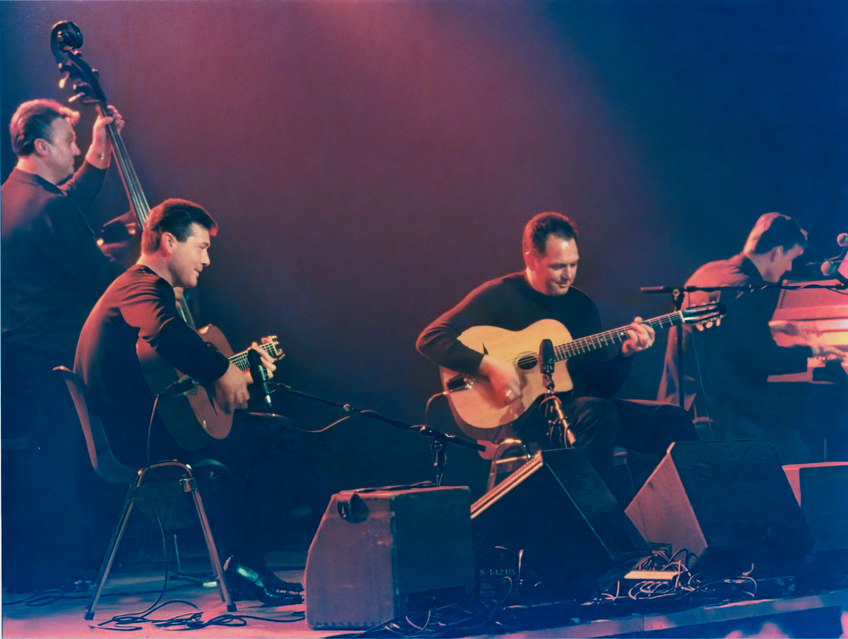 The Rosenberg Trio (gypsy jazz trio + 1) on stage at a show in the Netherlands, 2002 (Tony Rees photograph)